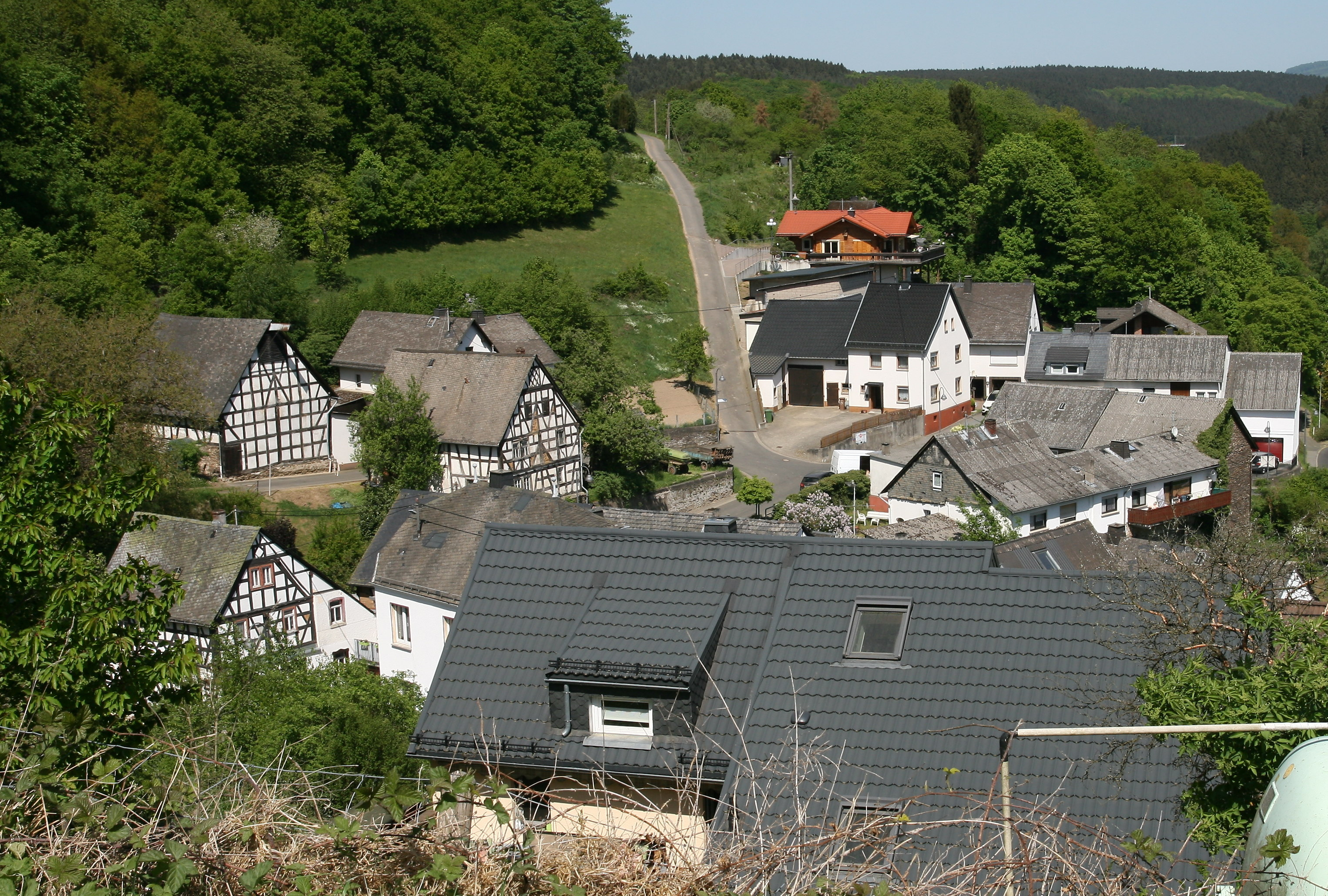 Cultural heritage zone in Reckenthal, Montabaur, Westerwaldkreis, Germany. The following houses belong to the zone: Tannenweg 16 (half-timbered house in the middle), 18 (upper half-timbered house), 31 (slightly right from the center, upper gable slated), 33 (lower half-timbered house), 35 (hidden)